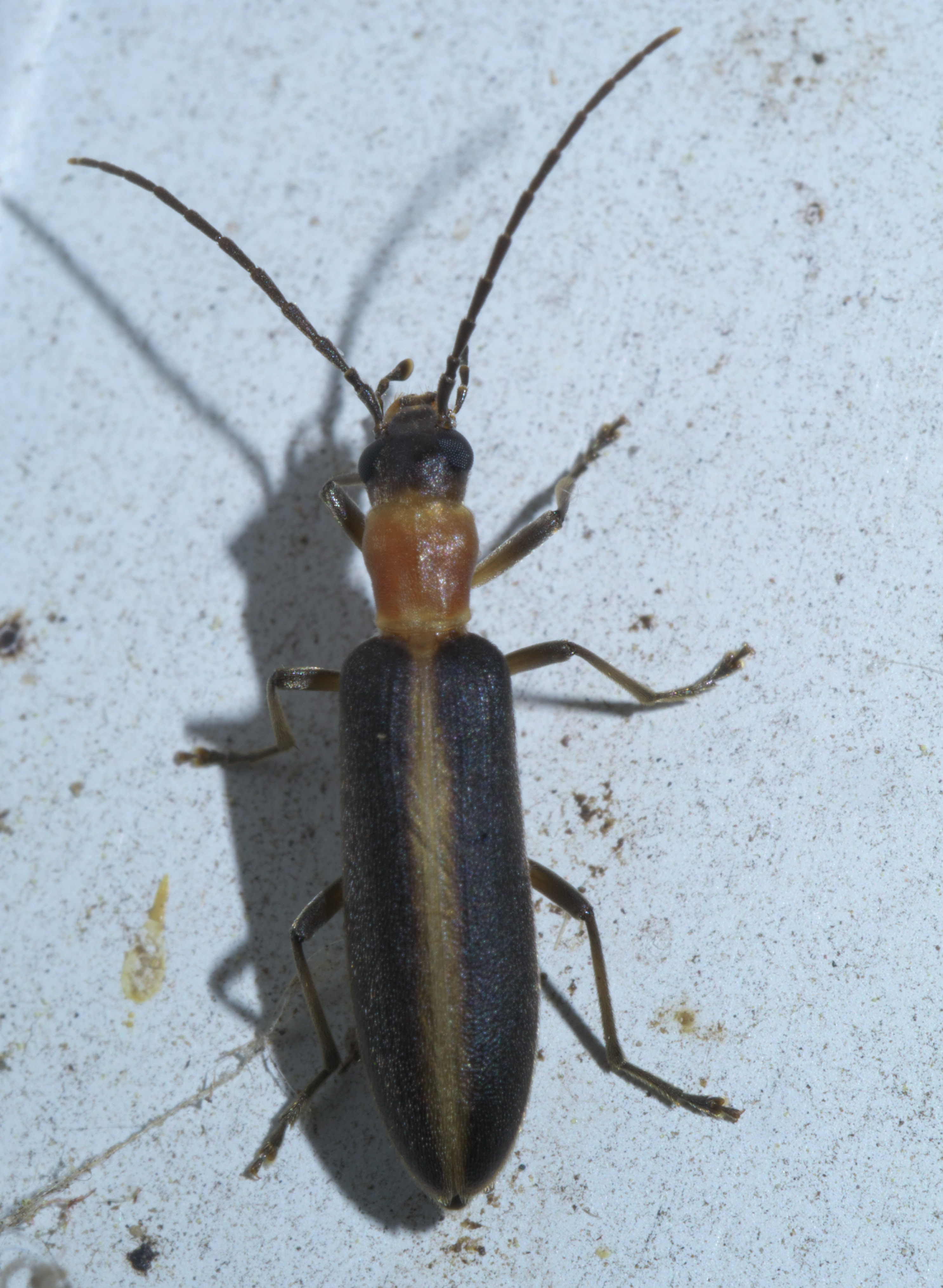 Oxycopis mimetica, Family: False Blister Beetles, Size: 9.6 mm, ID Confidence: 90